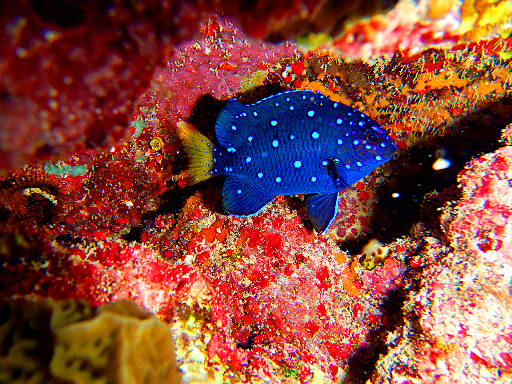 Yellowtail Damselfish (Microspathodon chrysurus) near Lagún Beach, Curaçao.